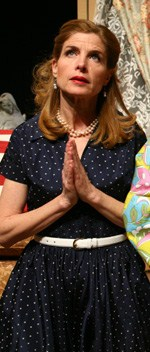 Performance of a 2007 Alchemy Theatre Company performance of Christopher Durang's The Vietnamization of New Jersey in New York City, directed by Robert Saxner. From left, Blanche Baker as Ozzie Ann, Susan Gross as Liat, Nick Westrate as Et, Frank Deal as Larry and Corey Sullivan as David.